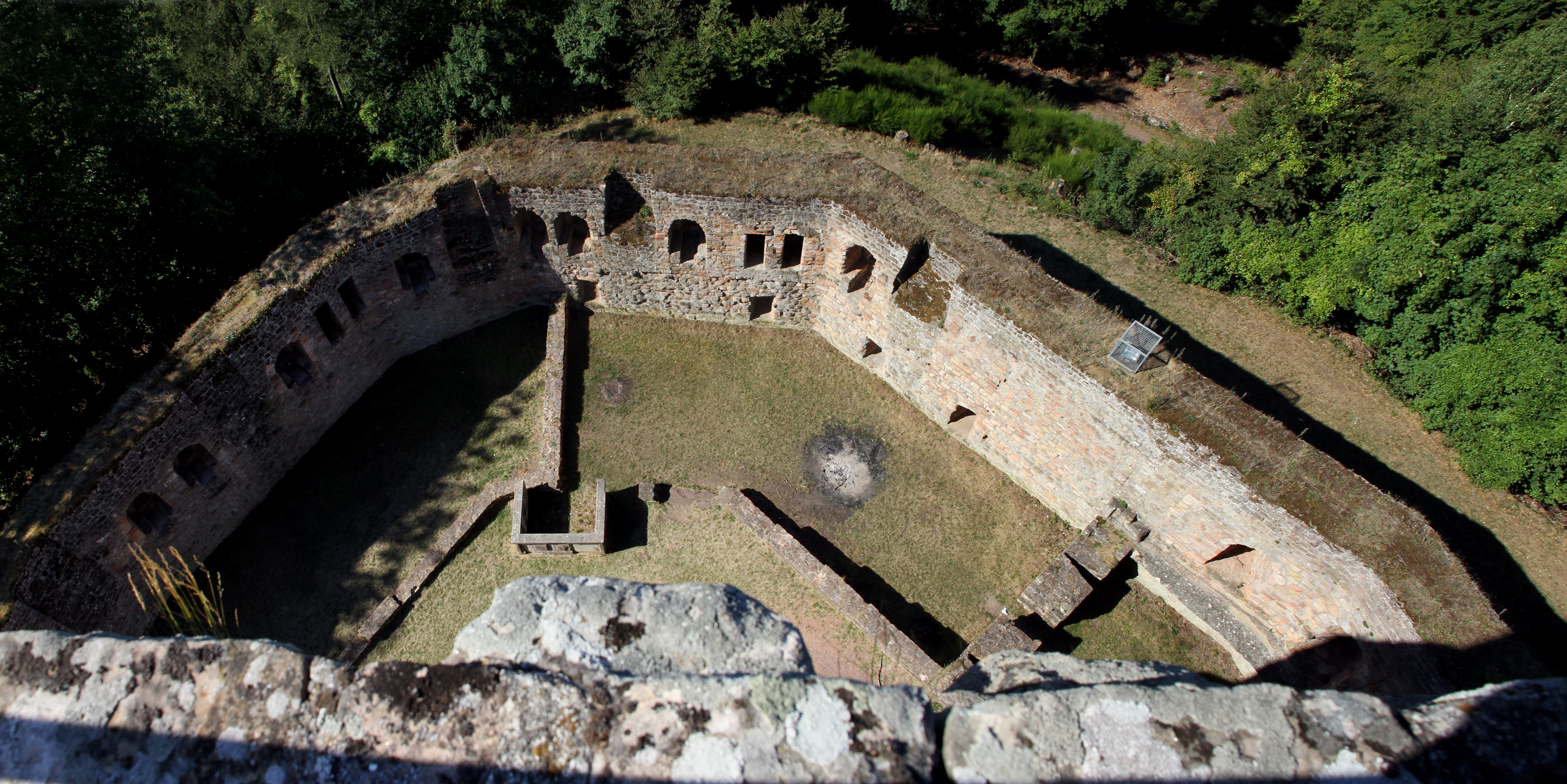 Gräfenstein Castle nearby Merzalben/Germany.